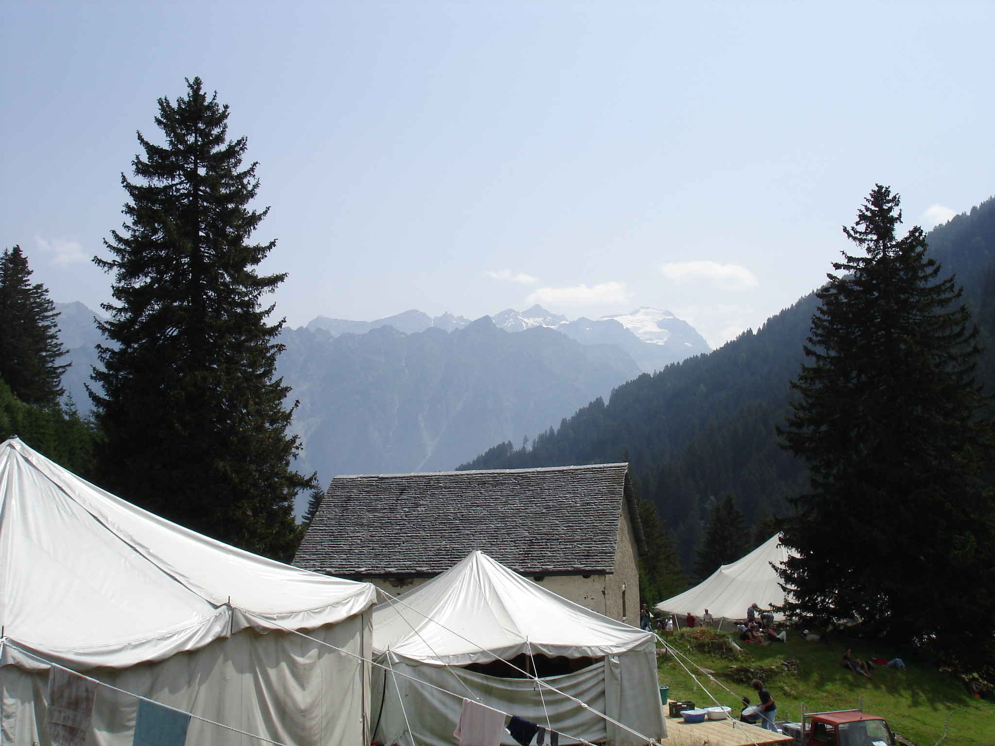 Summer camp of the Sufi Order Ināyati in Campra near Olivone in Ticino